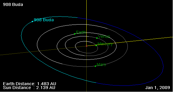 908 Buda orbit, and his position on 01 Jan 2009 (NASA Orbit Viewer applet)